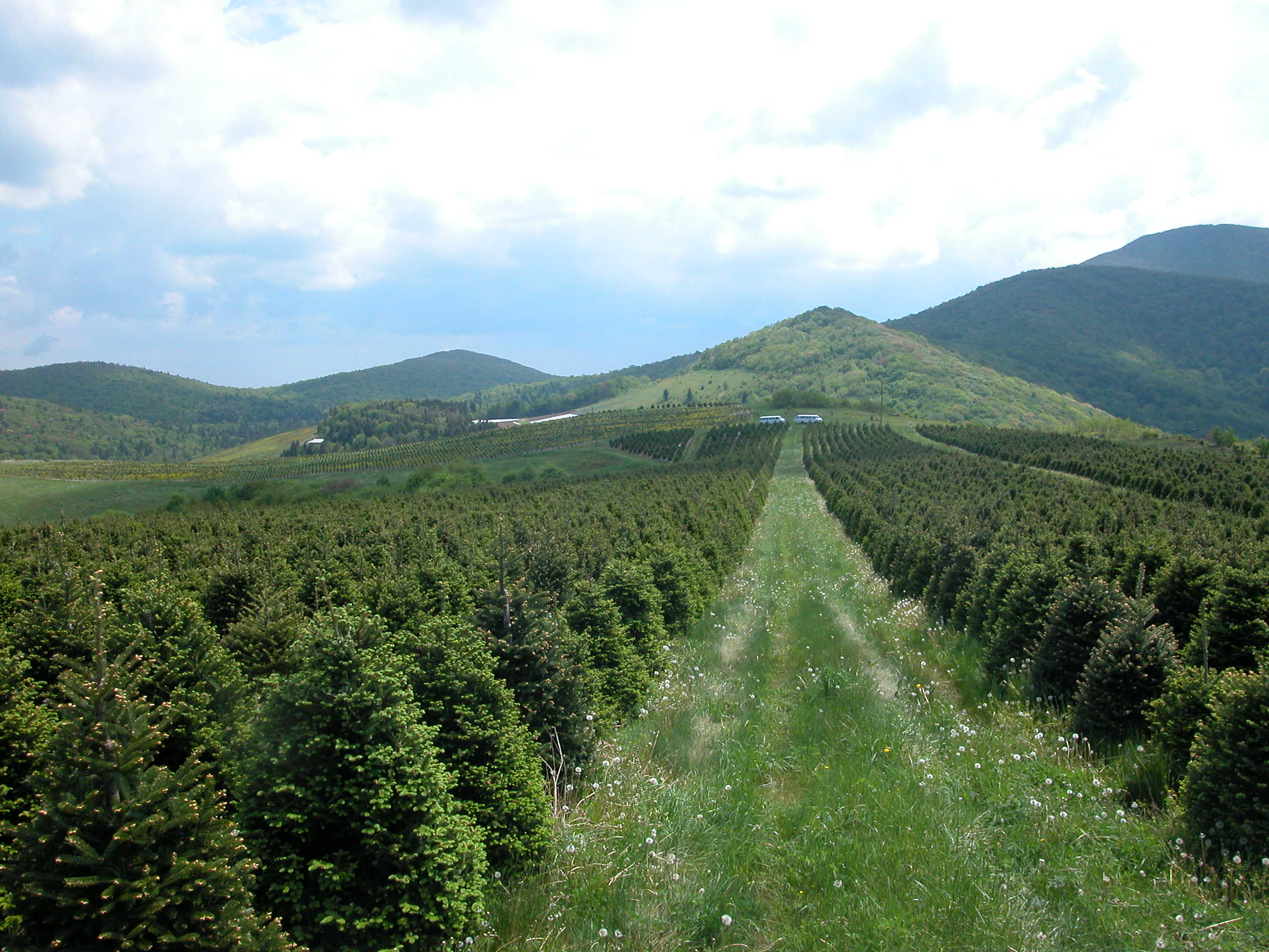 Photo courtesy of Dr. David Lindbo of the Department of Soil Science at NC State University